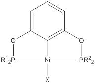 generalized structure of Ni(POCOP) metal compound